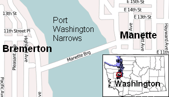 A map showing the location of the Manette Bridge. This map may be incomplete, and may contain errors. Don't rely solely on it for navigation.